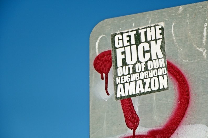 a sticker on the back of a street sign on Lakeview Boulevard E in Seattle, WA pictured in 2015